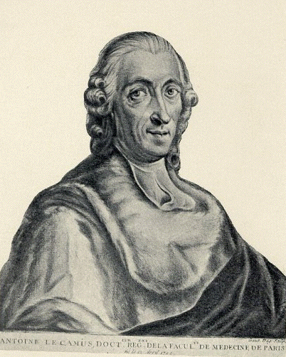 Antoine Le Camus